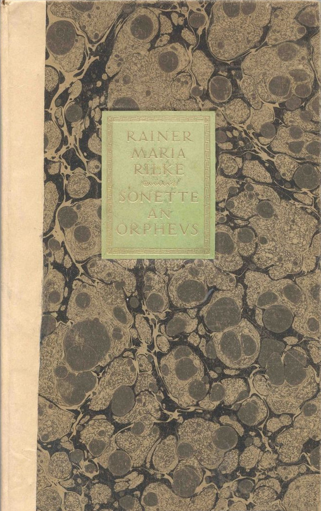 First edition book cover of Sonette an Orpheus (Sonnets to Orpheus) (1923) by Rainer Maria Rilke. Cover rotated and cropped from original UB Bielefeld scan by Yodin.